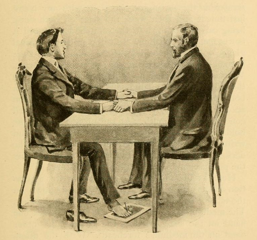 A sketch revealing a fraudulent method that mediums would use to perform slate writing in their séances.